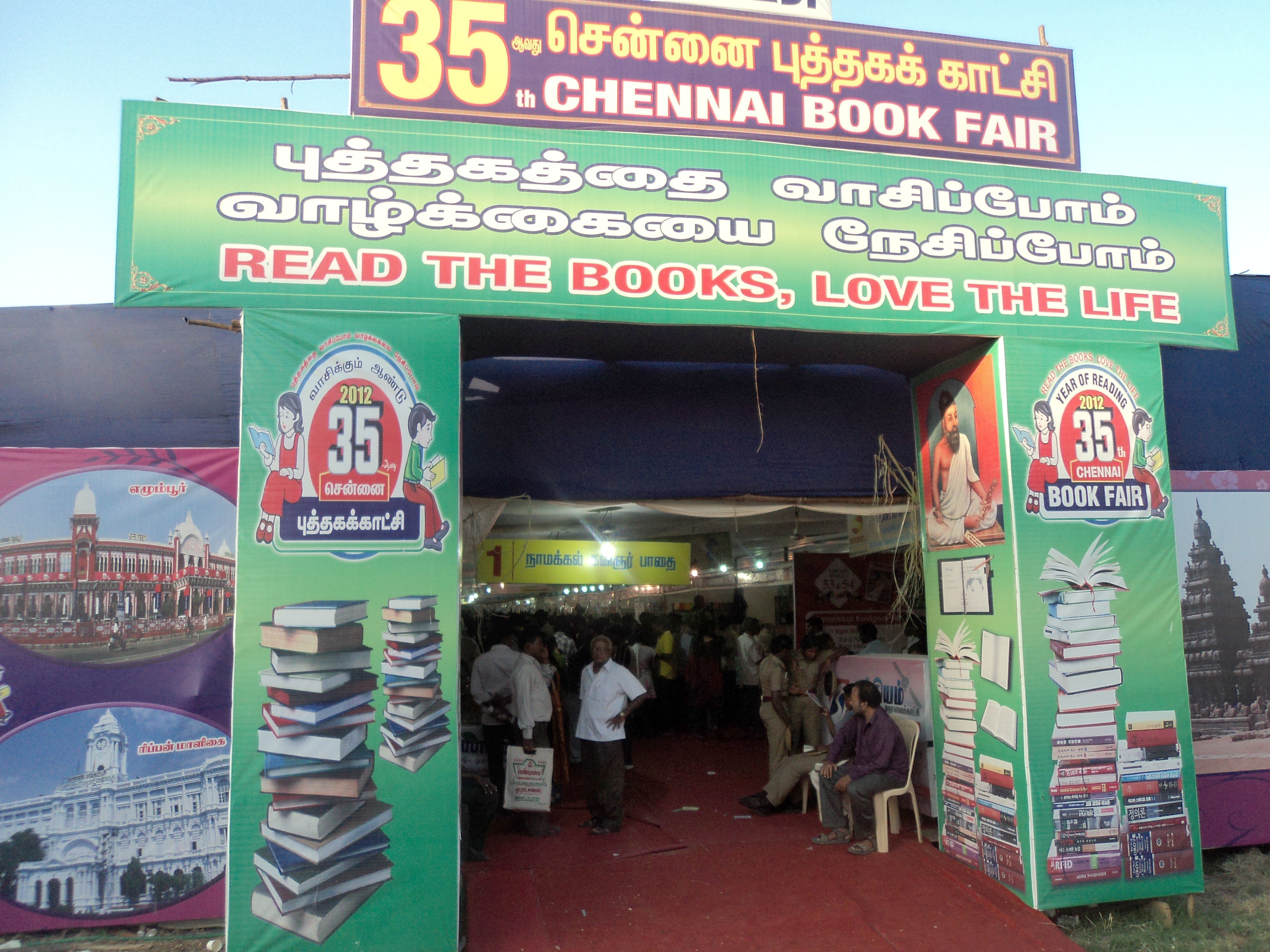 The 35th book fair in Chennai